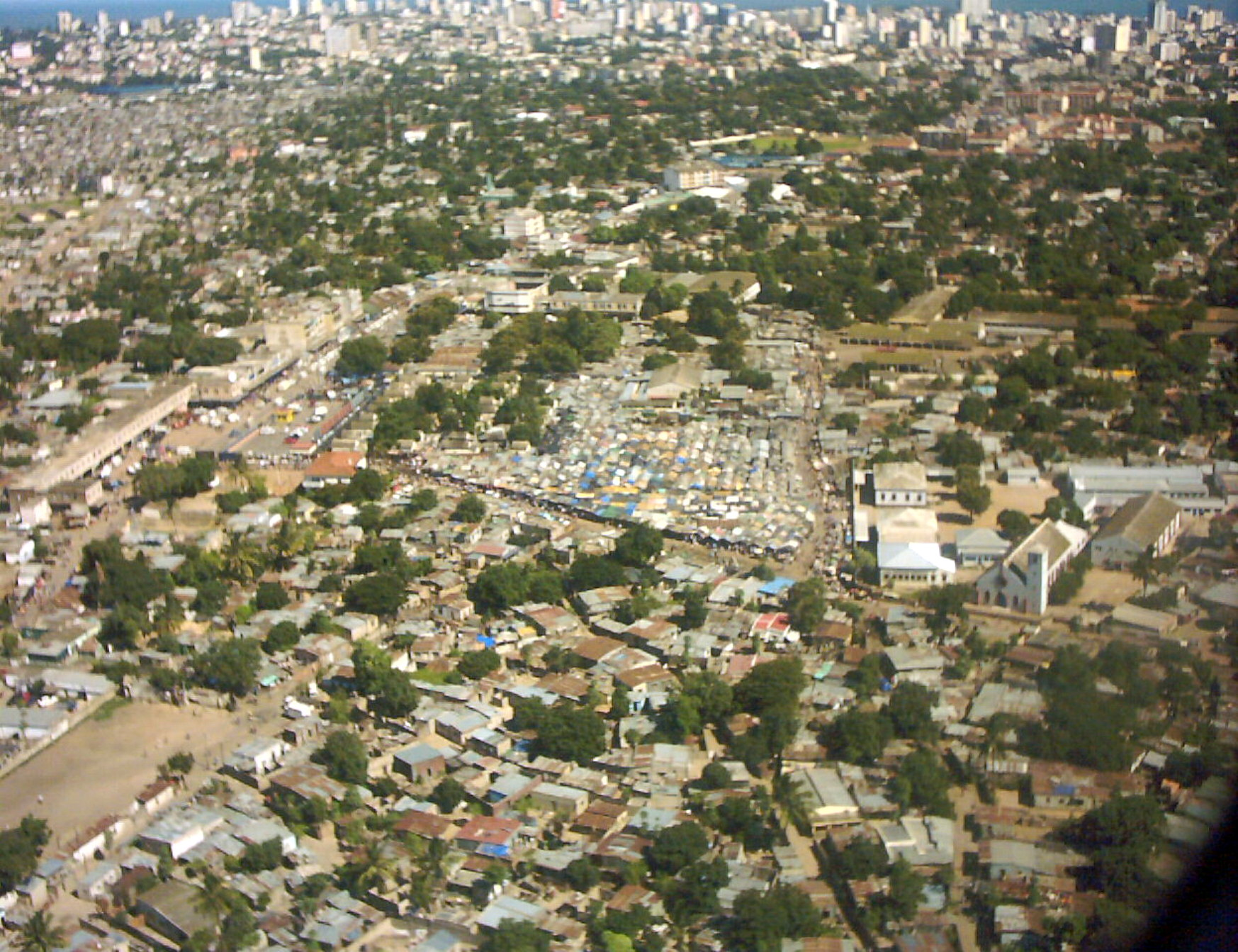 Xipamanine market, Maputo, Mosambik